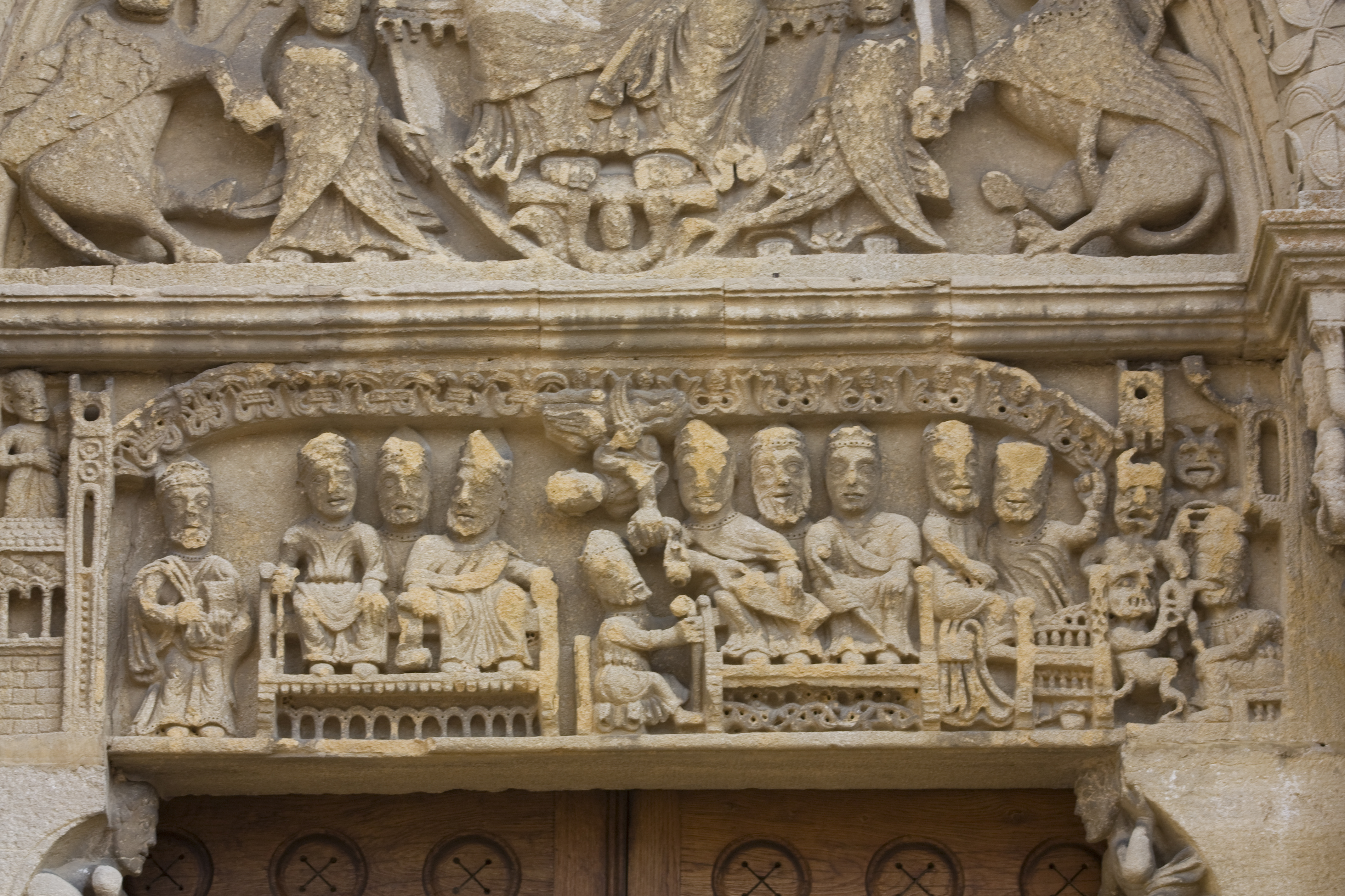 The lintel of the west porch show Hilary at the Council of Seleucia in 359, where he came to fight the Arianism . Hilary, bishop of Poitiers, is shown seated on the ground between the Council Fathers sit down on benches. On the right is represented the death of pseudo Pope Leo, president of the council and partisans of the heresy of Arius.